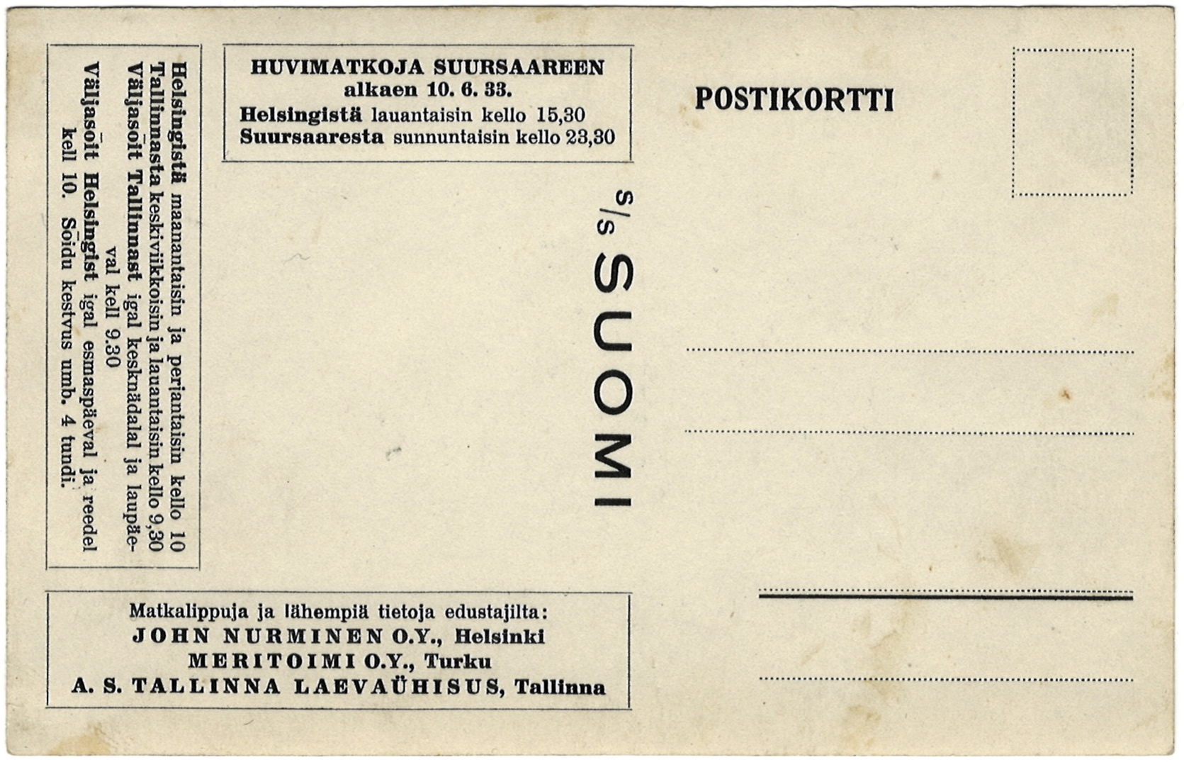 Steamship Suomi postcard advertisement from 1933